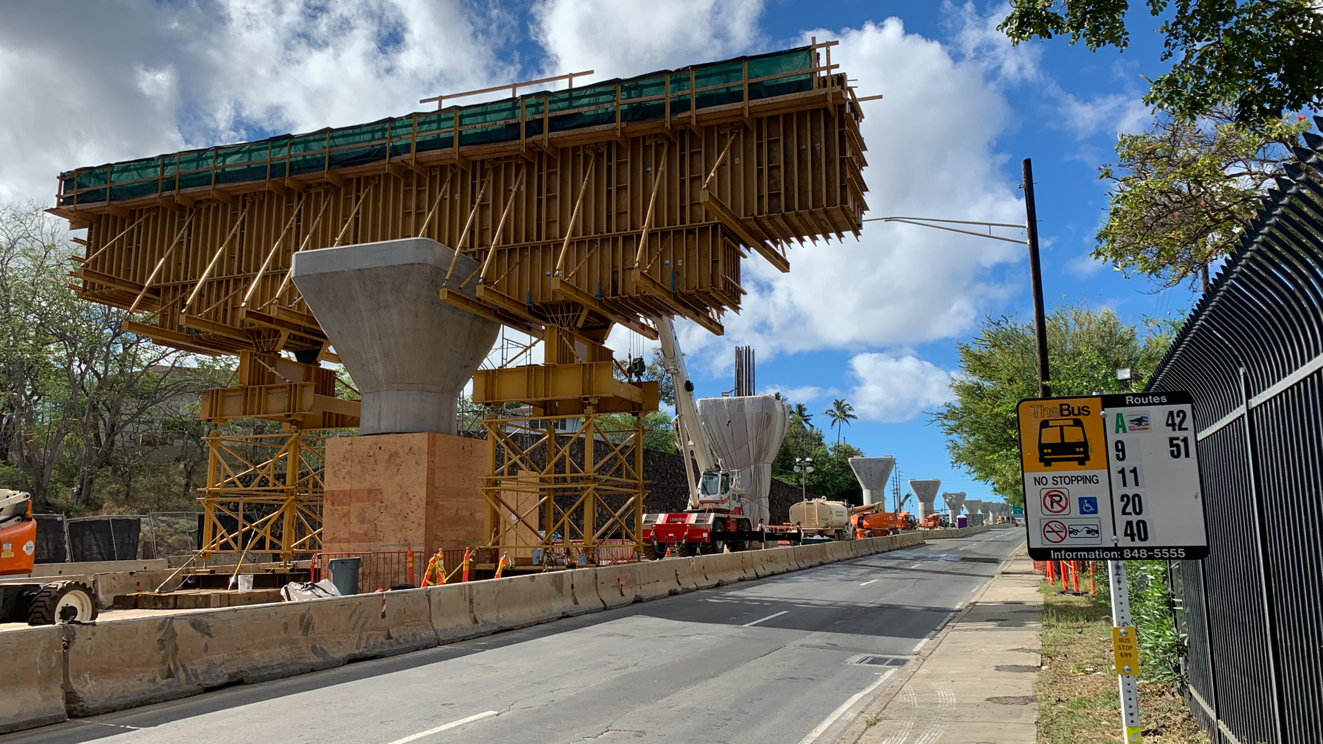 Making its way to the Airport